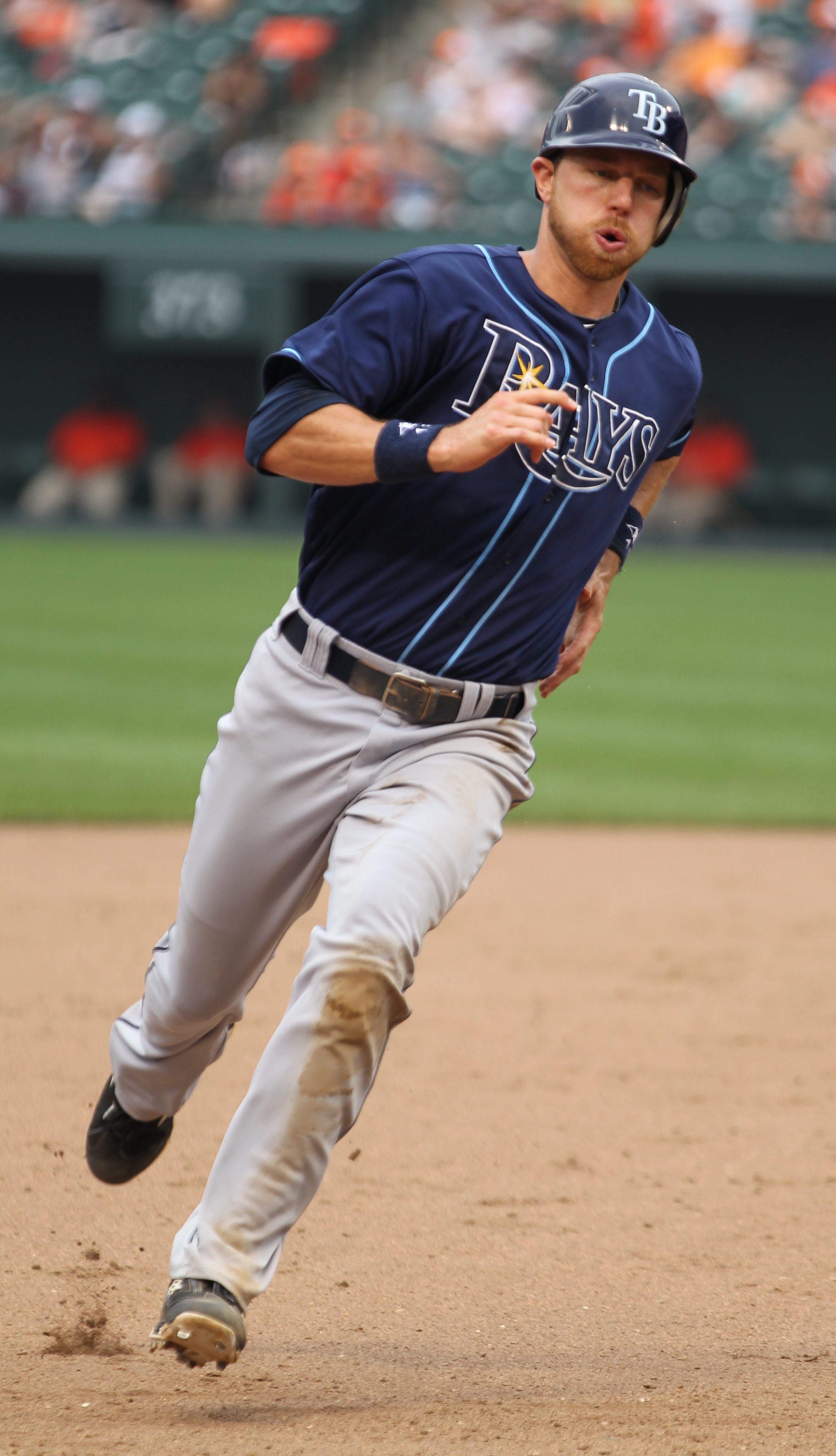 Tampa Bay Rays at Baltimore Orioles June 12, 2011.